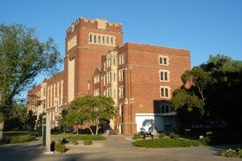 Regina College building U of R July 2010